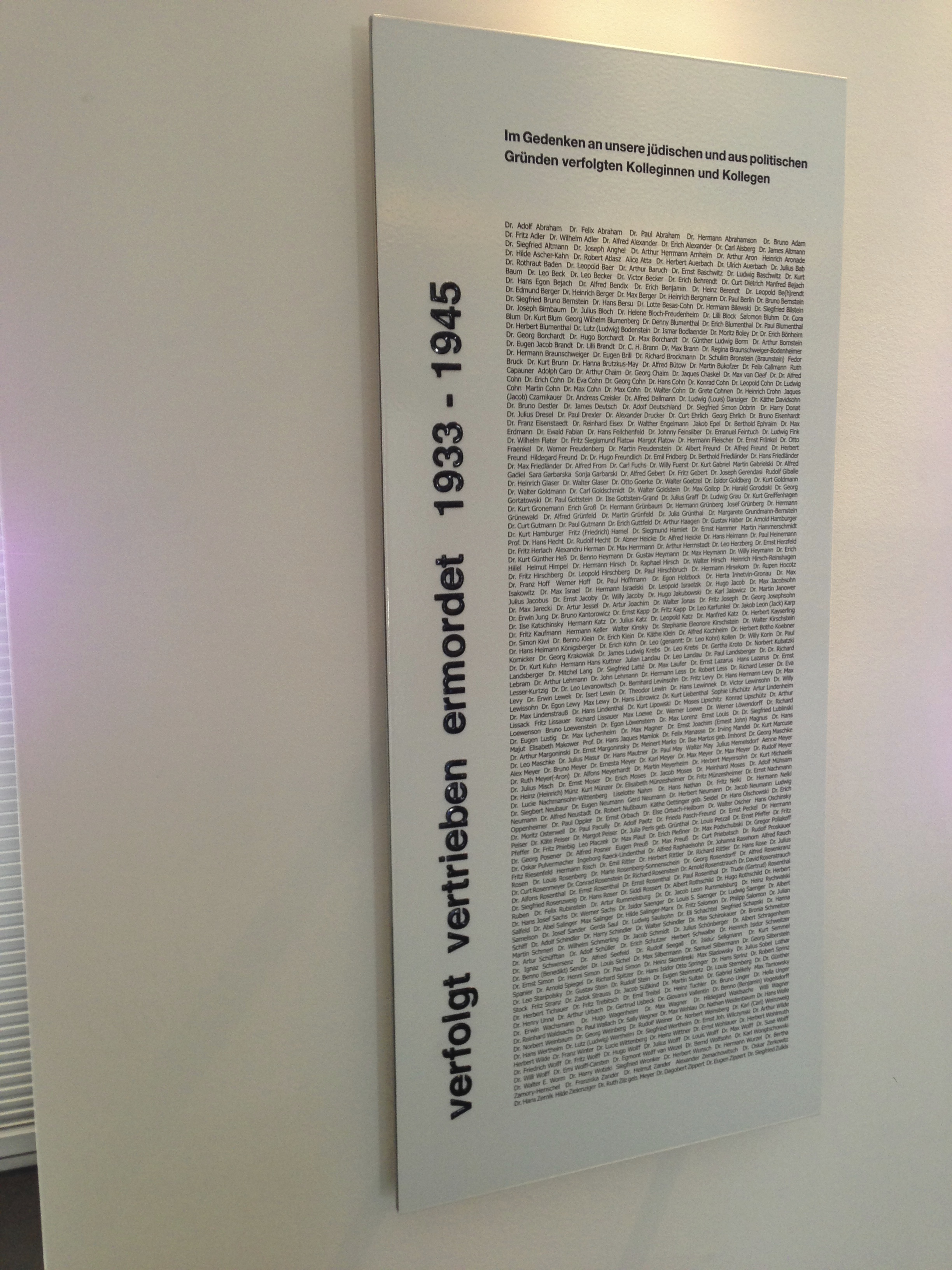 Memorial for killed or displaced jewish Dentists in Berlin, Kassenzahnaerztliche Vereinigung Berlin